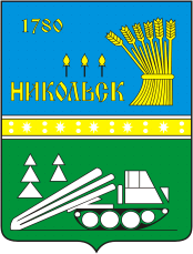 Nikolsk (Vologda oblast), coat of arms (1970)